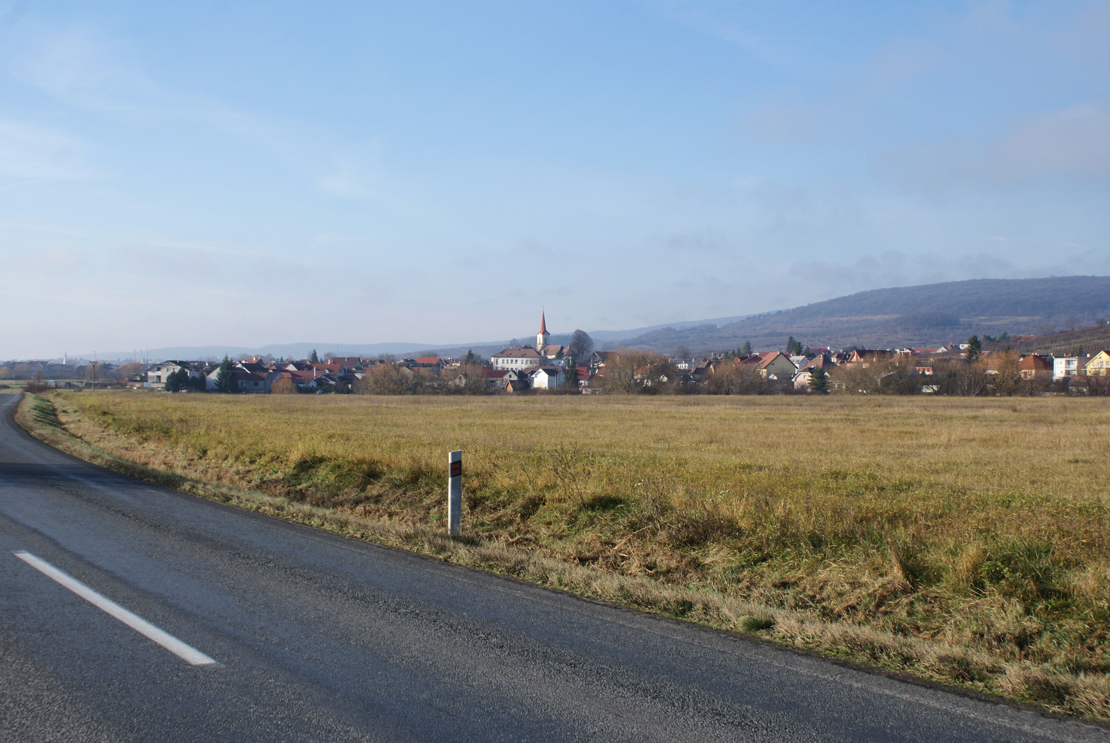 Dubová, a village in Pezinok district, Slovakia, general view.